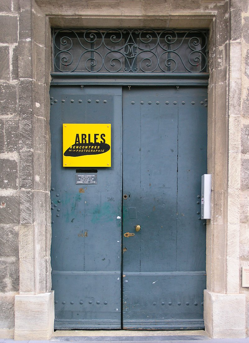 Rencontres d’Arles 2005